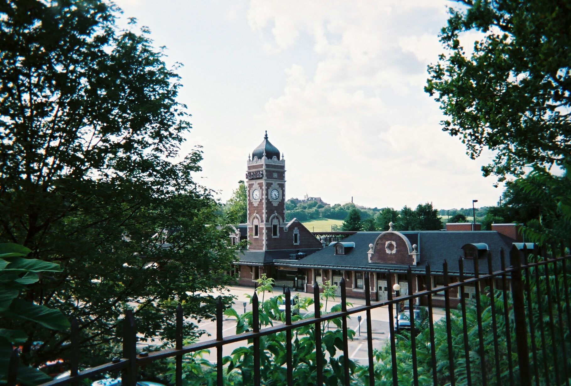 Greensburg Train Station, 101 Ehalt Street (at corner of Harrison Avenue), Greensburg, Pennsylvania. Built: 1911. Architect: William Cookman. Originally built by the Pennsylvania Railroad, currently served by Amtrak. Photo taken from North Pennsylvania Avenue.